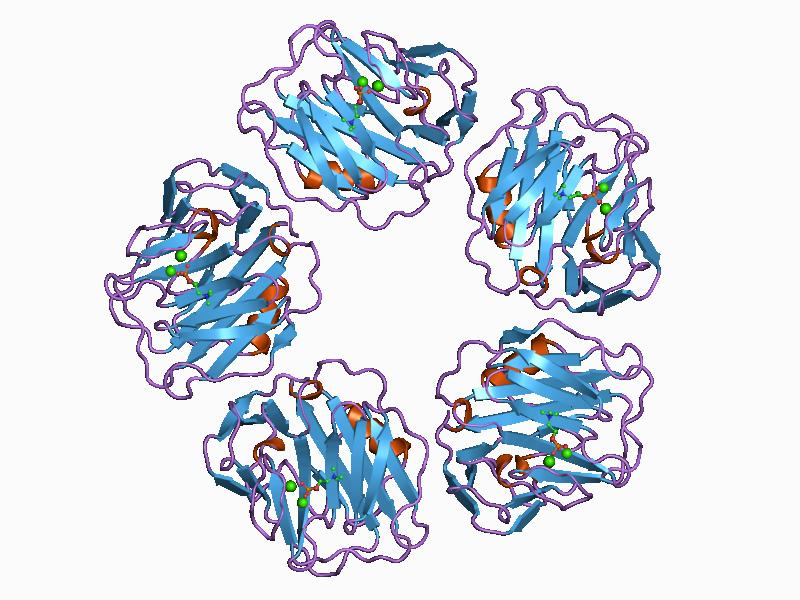 Cartoon representation of the molecular structure of protein registered with 1b09 code.